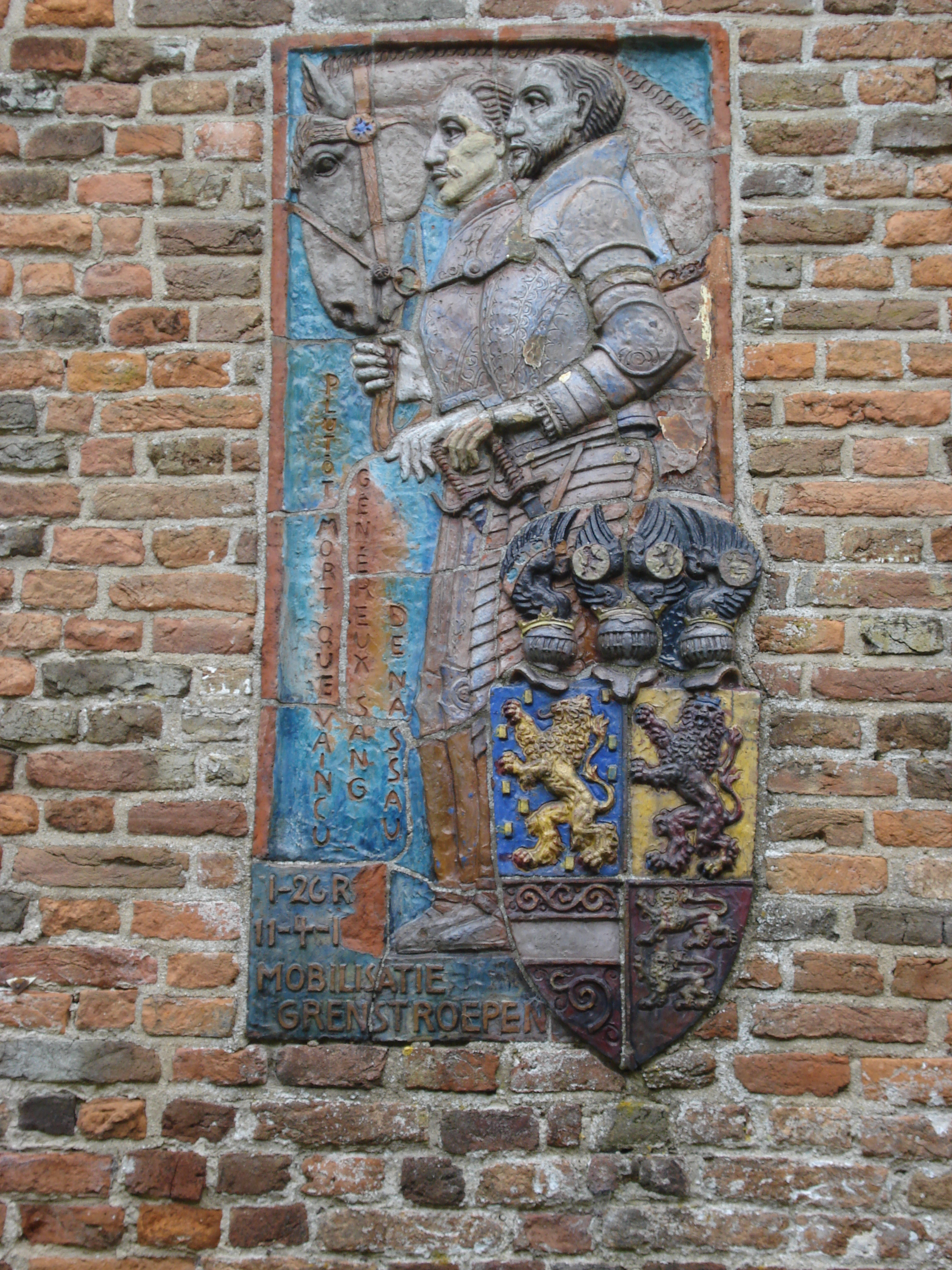 Heumen (Gld, NL), relief monument on the protestant church, memorising the mobilisation of frontier troups by the images and coats of arms of the comtes of Nassau, Lords of Heumen.